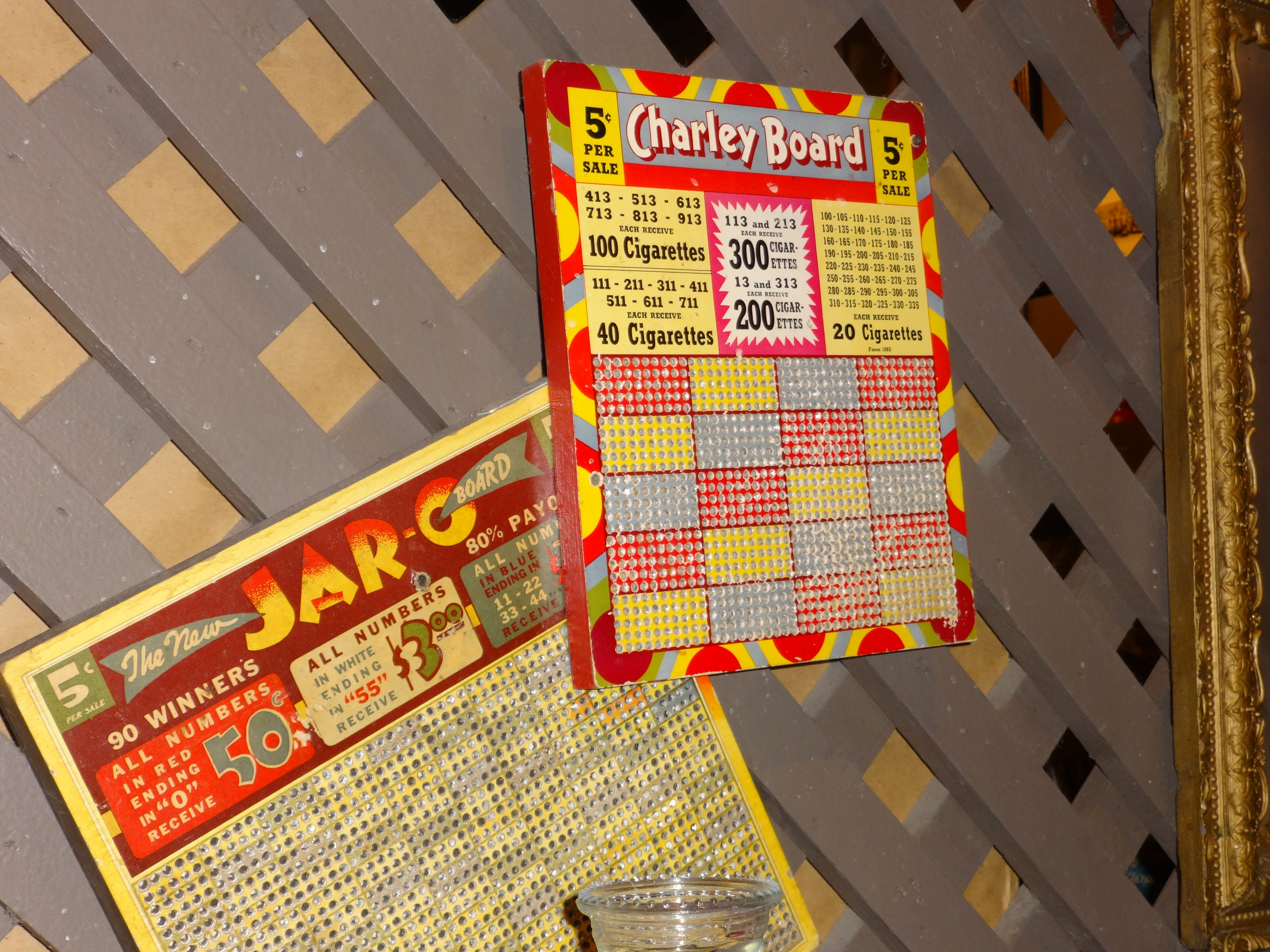 Two different types of punchboards